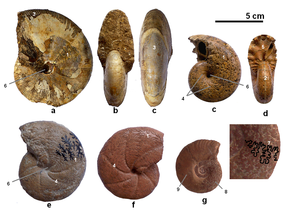 Some examples of Phylloceratina ammonites. A,B,C=Phylloceras (Jurassic) C,D=Ptychophylloceras (Late Jurassic) E,F=Calliphylloceras (Early Jurassic) G=Juraphyllites